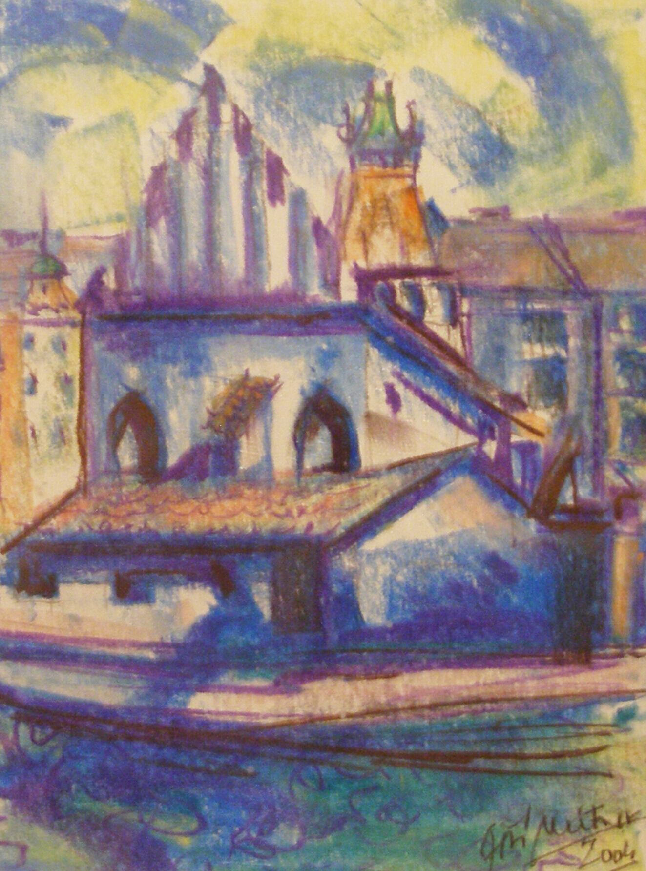 Jiří Meitner, chalk drawing, The Old and new synagogue in Prague